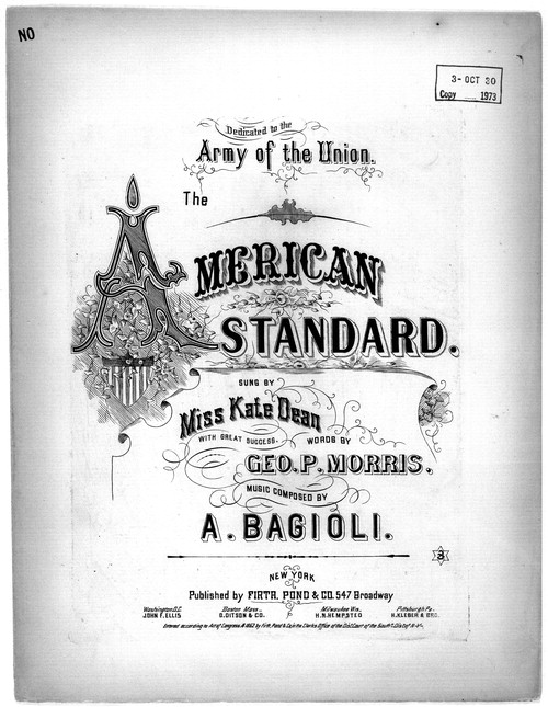 Cover of sheet music - The American Standard composed by Antonio Bagioli, librettist George Morris, first published by Firth, Pond and Co. 1864.